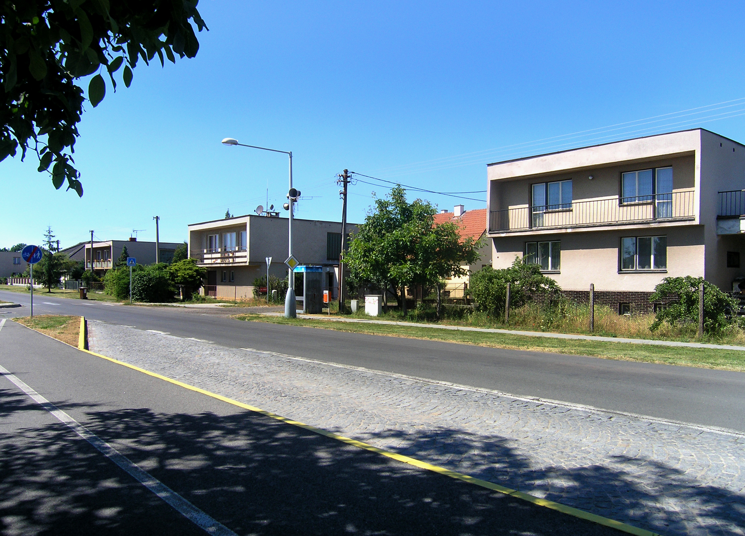 East part of Srnojedy, Czech Republic